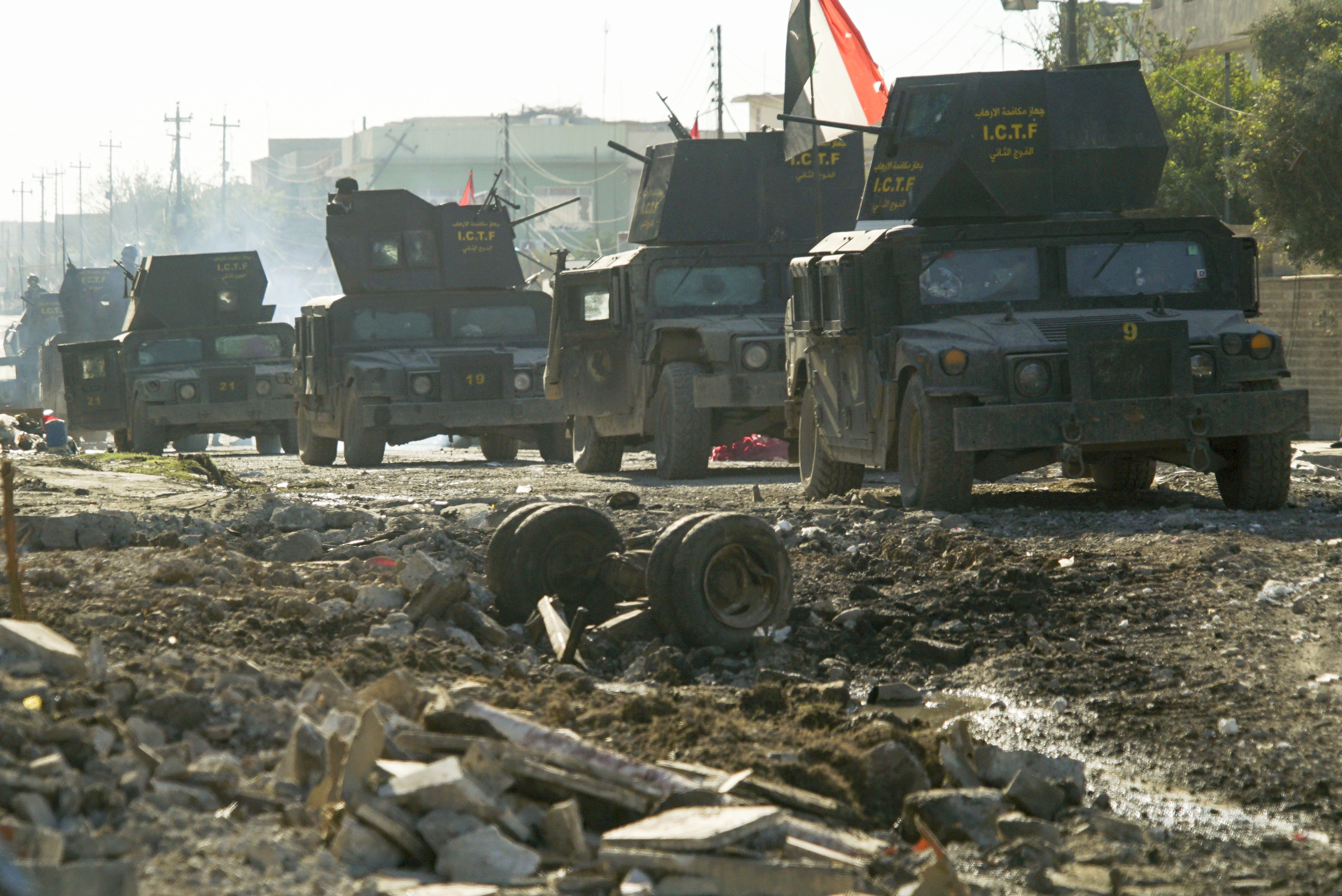 ISOF APC on the streets of Mosul. Northern Iraq, Western Asia. 18 November, 2016.